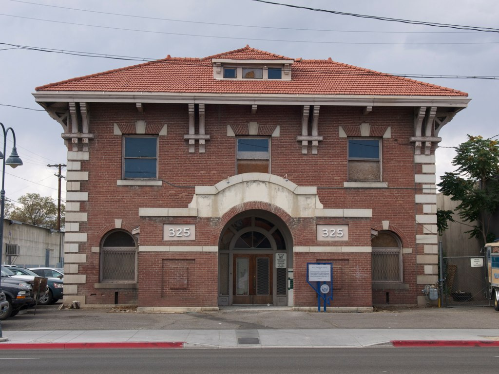 325 E. 4th St., Washoe County, Reno, Nevada